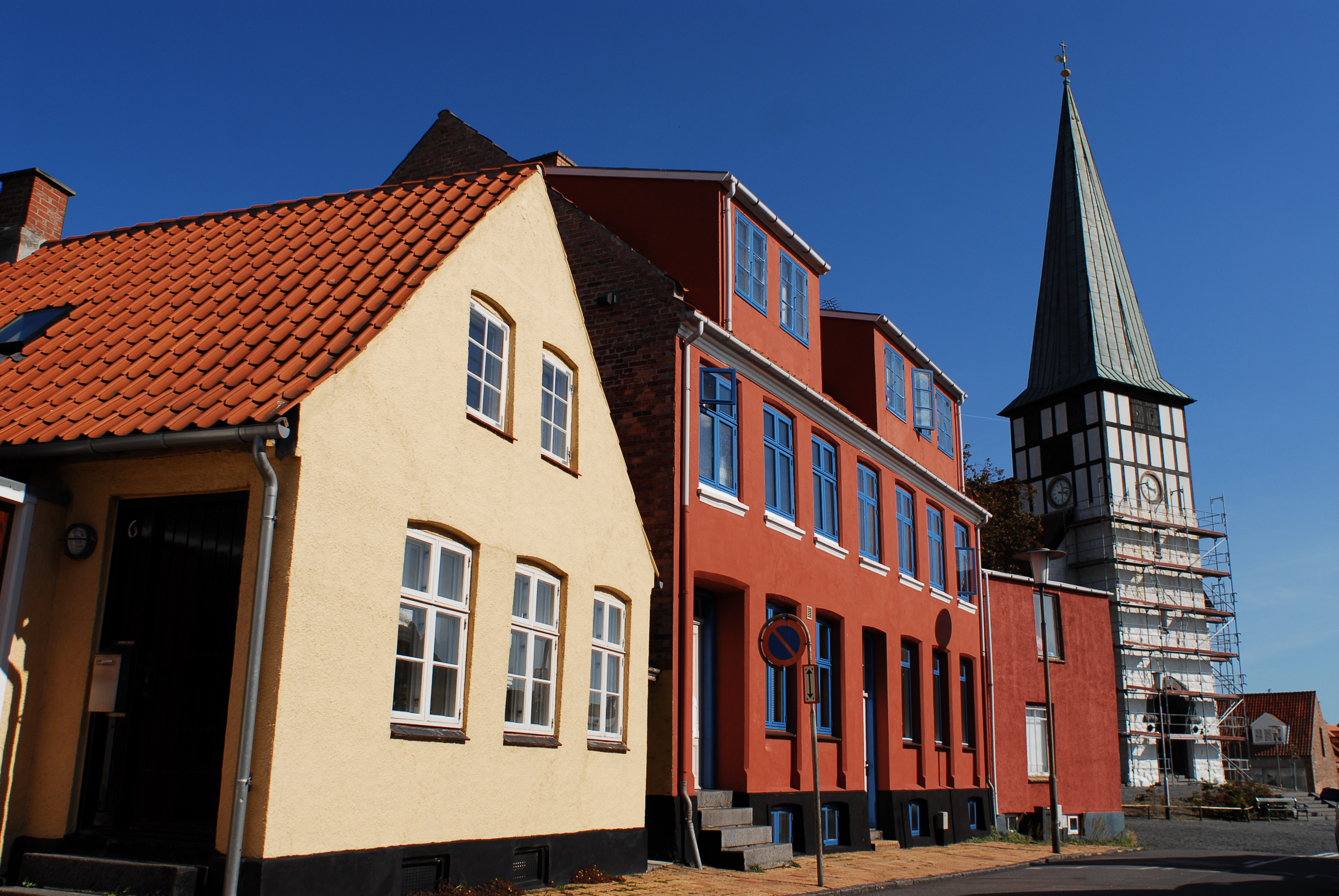 View of Sct. Nicolai Kirke as from Storegade. Bornholm, Denmark, Northern Europe